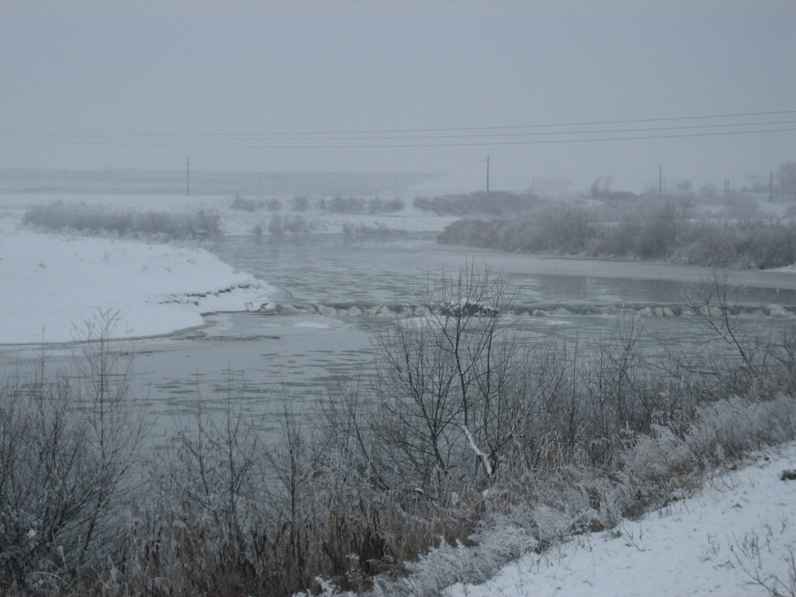 The Arieş beside Luncani